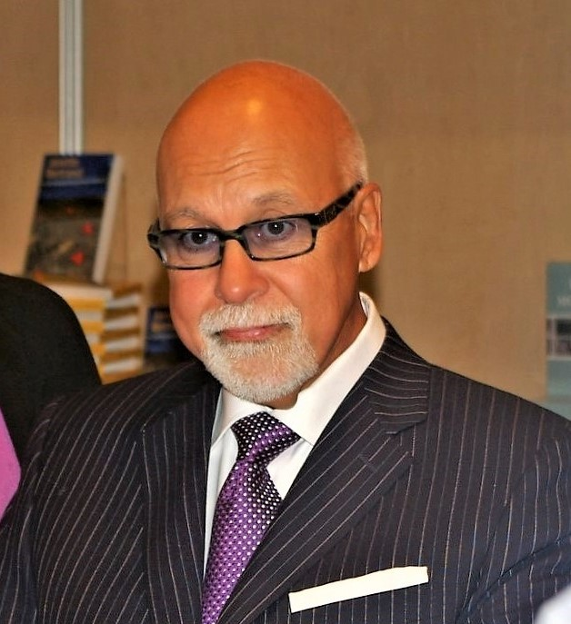 René Angelil dedicating his book